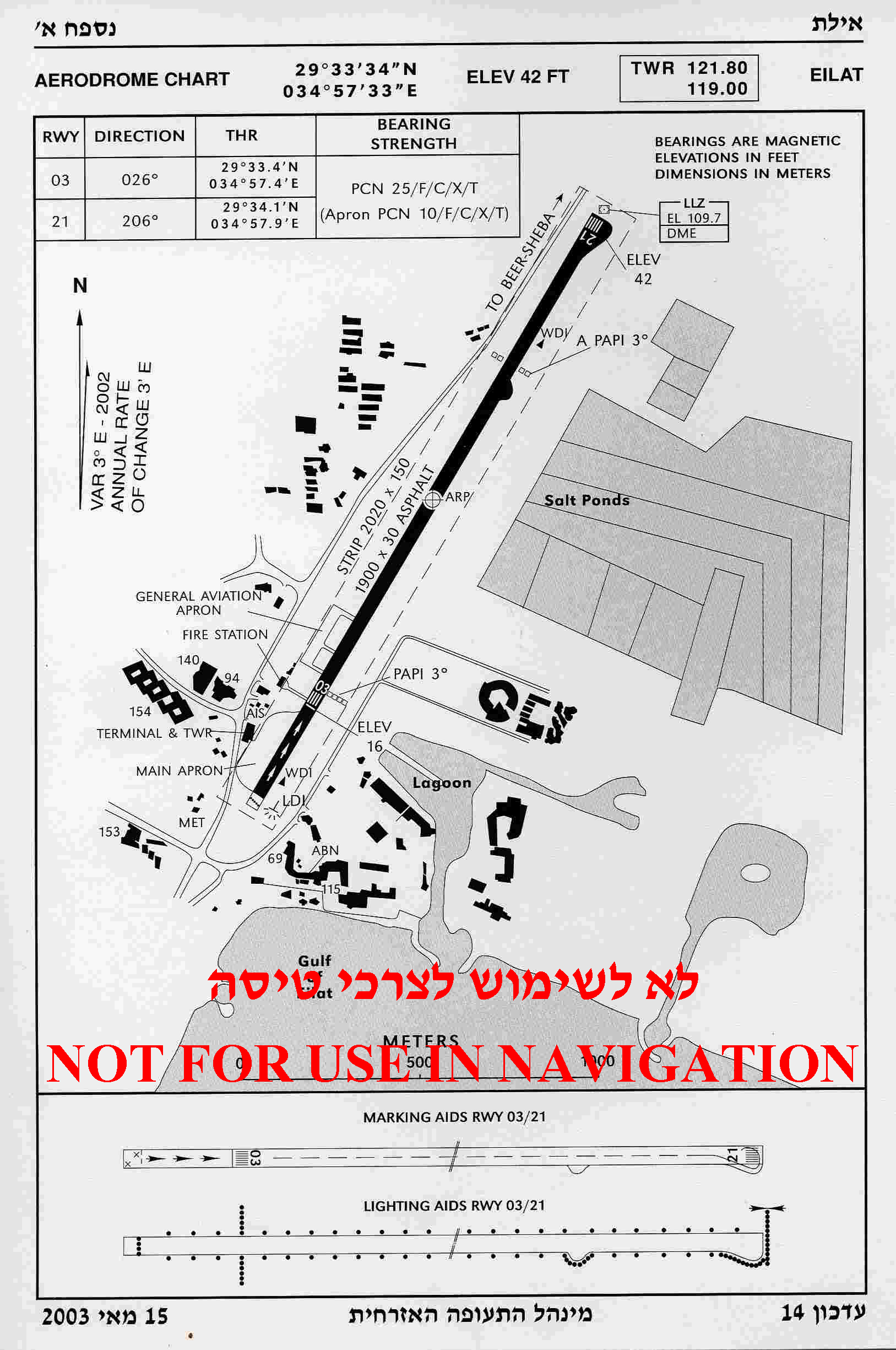 Chart of Eilat Airport (Israel)